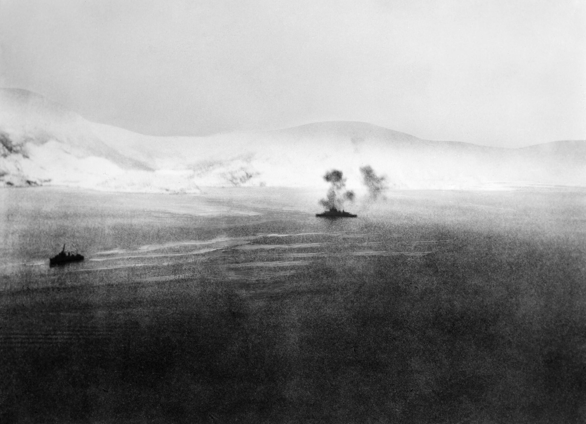 Aerial photograph showing British battleship HMS WARSPITE seen in the distance in action with the Narvik shore batteries during the second British naval action off Narvik, smoke from her guns hanging above the battleship. One of the British destroyers is seen on the left. Photograph taken from an aircraft of the Fleet Air Arm. During this operation seven German destroyers were sunk or forced to beach themselves.